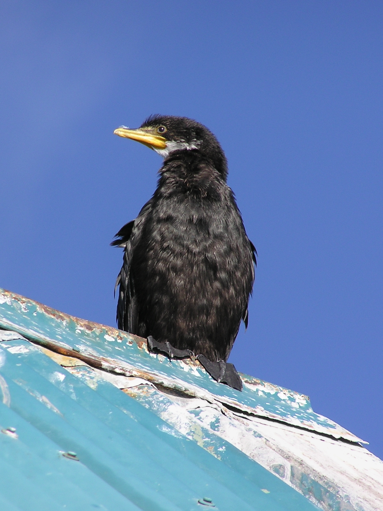 Little Pied Shag on Petone wharf, Wellington Harbour, Wellington, New Zealand. It has just been drying out and preening after a feeding foray.